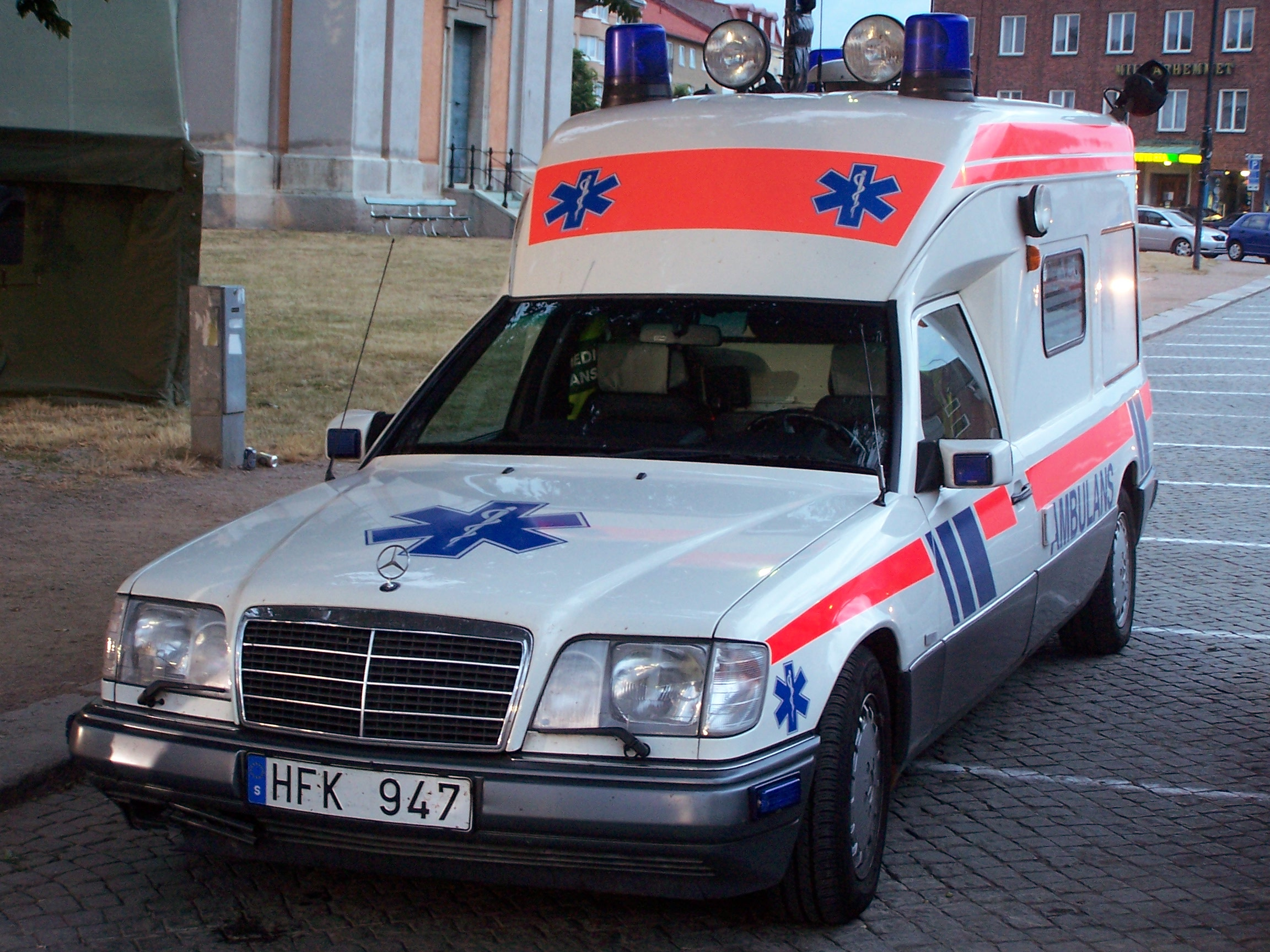 Swedish ambulance. The car is a Mercedes Benz E 280 AMB (1996) (source: [1]). The vehicle is in service today as a back-up vehicle at Blekinge.